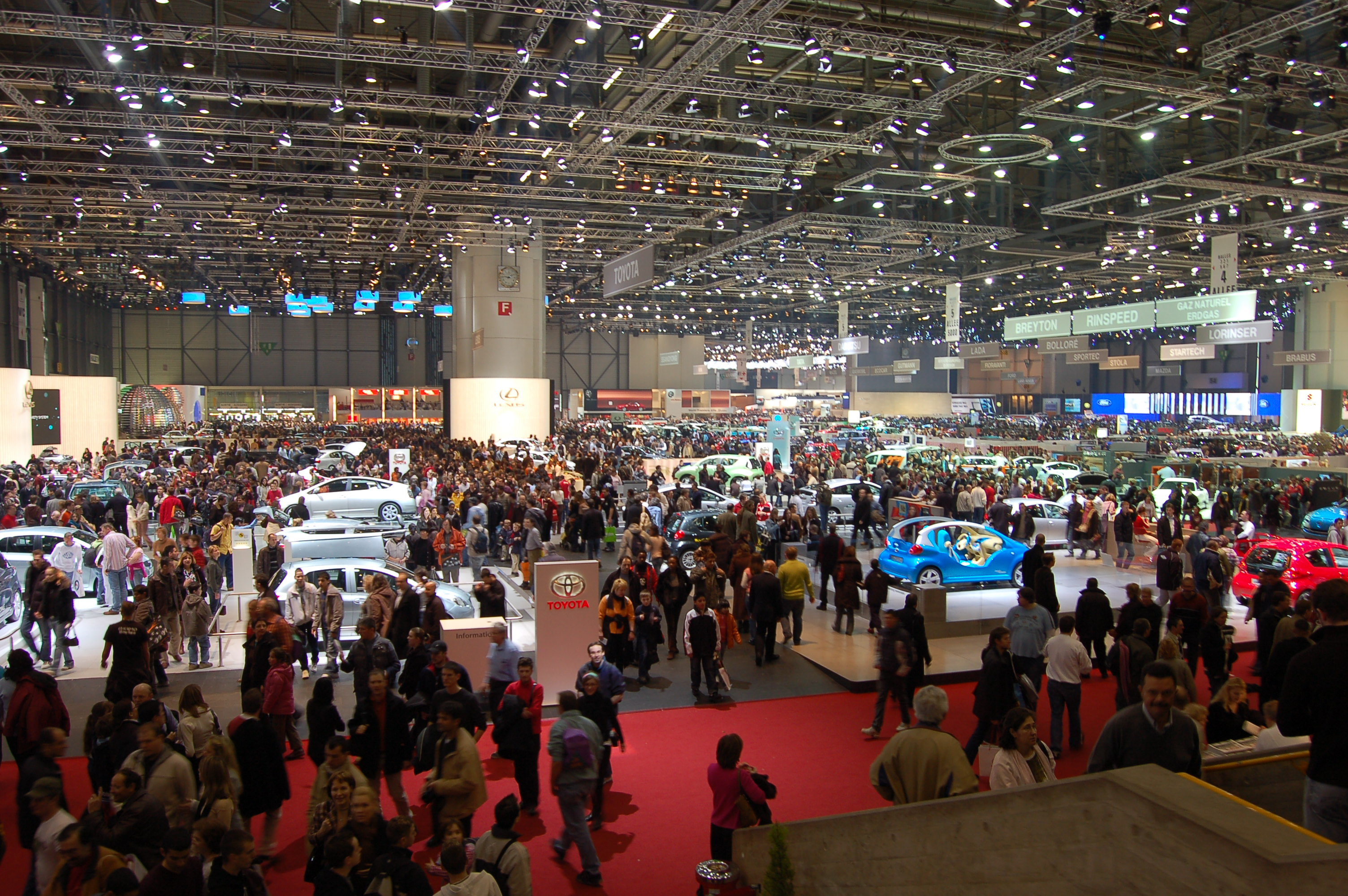 Geneva Motor Show, March 2006